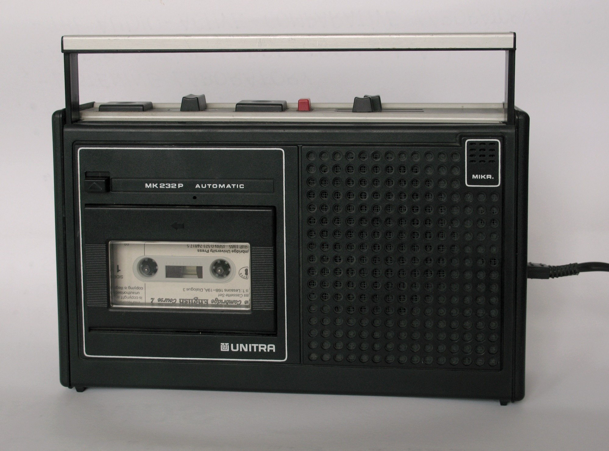 A tape recorder MK 232 P based on Grundig's C-235 Automatic. Produced in Poland Author Mohylek